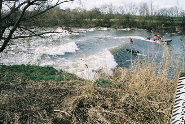 Severn Bore near Over Bridge, Gloucester An amazing sight and sound. The river goes from low tide to almost high tide in seconds, and the water continues to power upstream, literally flowing in the wrong direction, for some time after. Awesome!